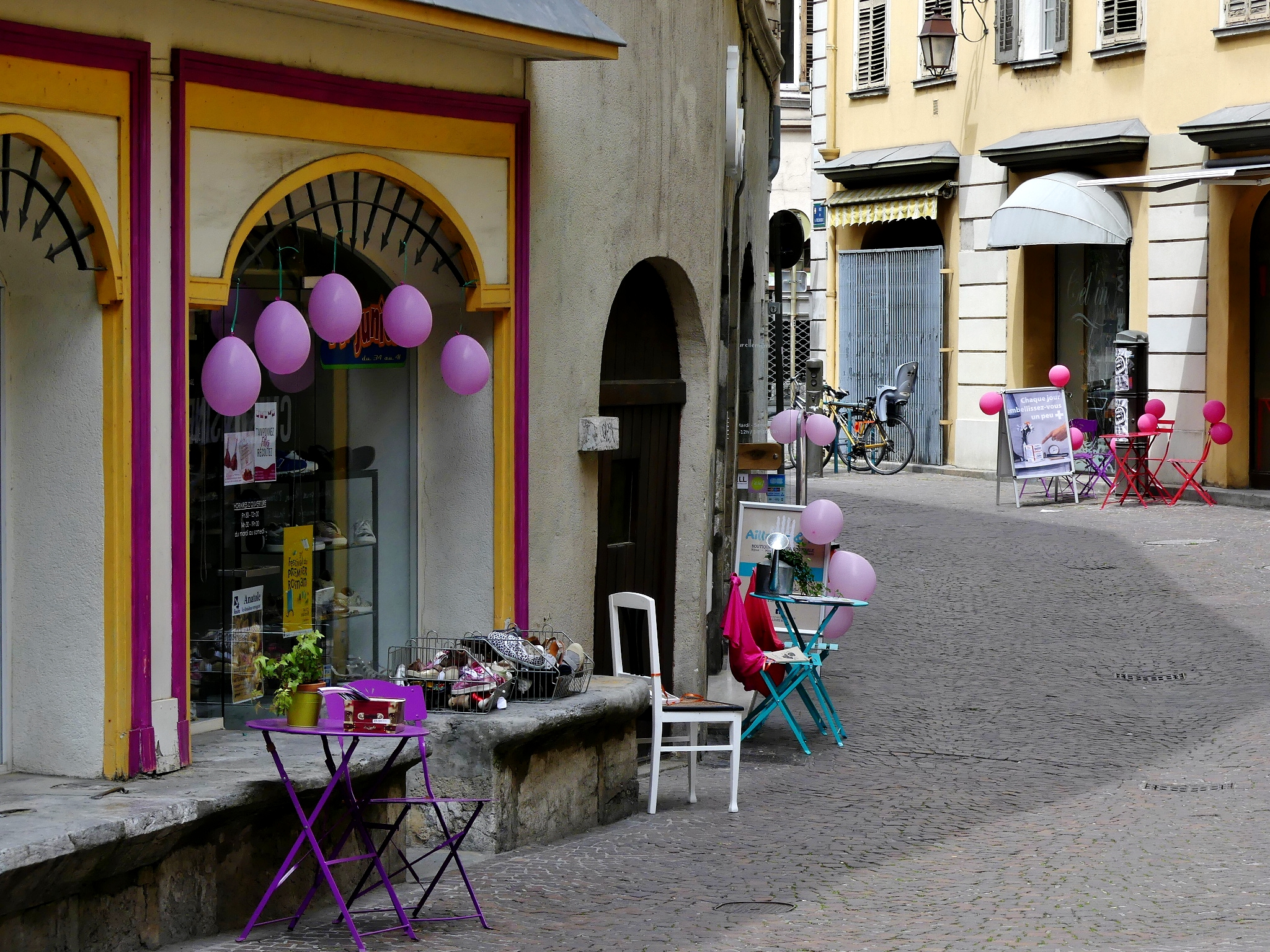 Sight of Rue Trésorerie pedestrian street, with free seats and novels during the Festival du Premier Roman event and pink balloons during Odyssea race against breats cancer, occuring in May 2018 in Chambéry, Savoie, France.